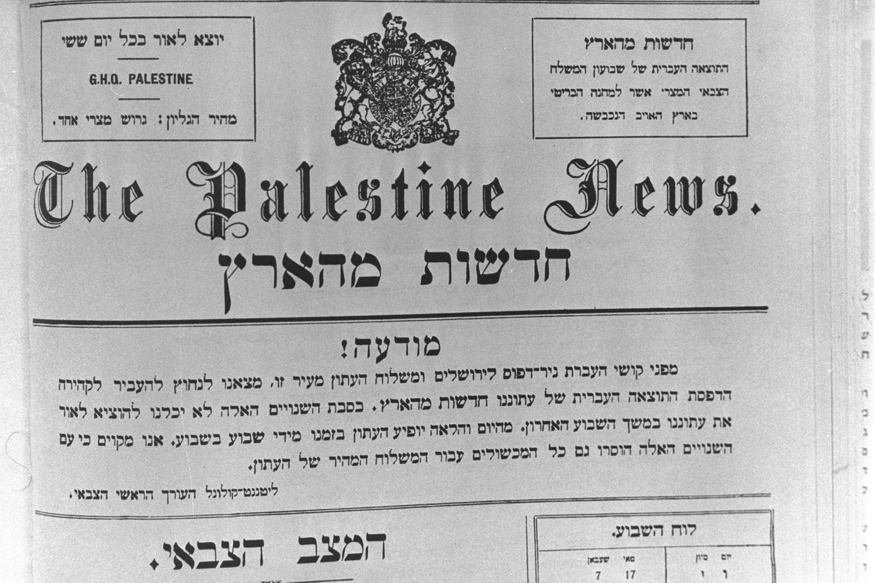 THE PALESTINE NEWS" "HADASHOT HA'ARETZ" (NEWS OF ISRAEL), EARLY TURN OF THE CENTURY WEEKLY. מראה כללי של השבועון "חדשות מהארץ" היוצא לאור בכל יום שישי.